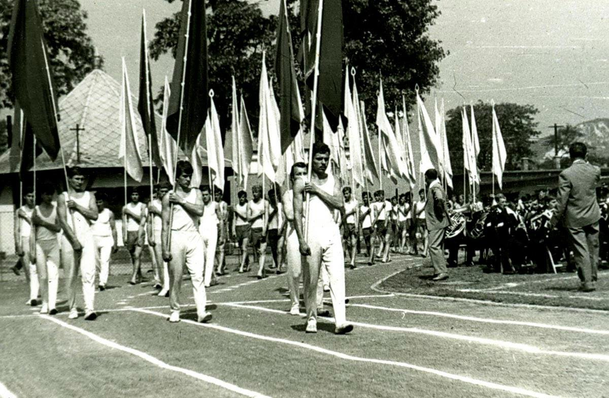 The history of the Buzanszky stadium is very rich by many sport activities, celebrations and festivals.